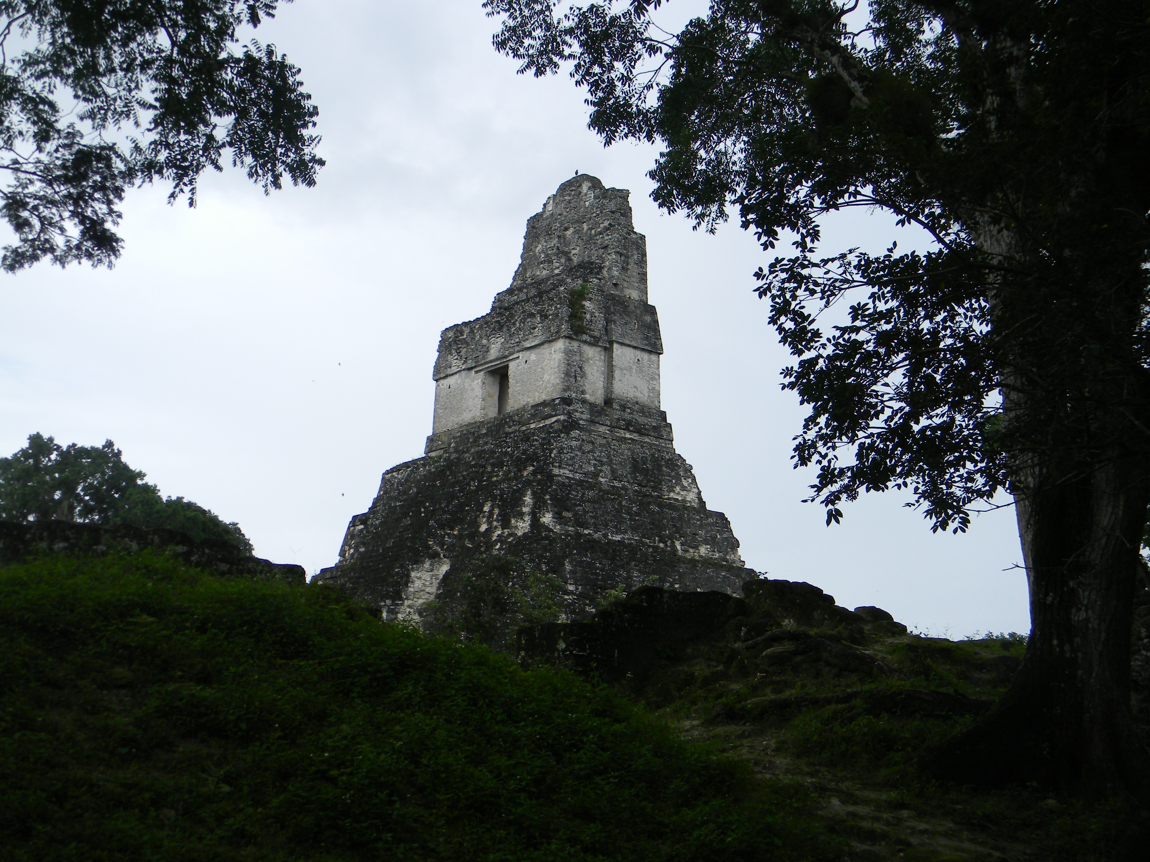 Tikal Temple III, side view